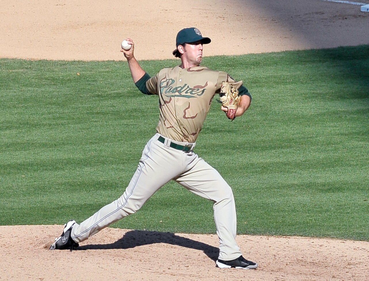 Dirk Hayhurst